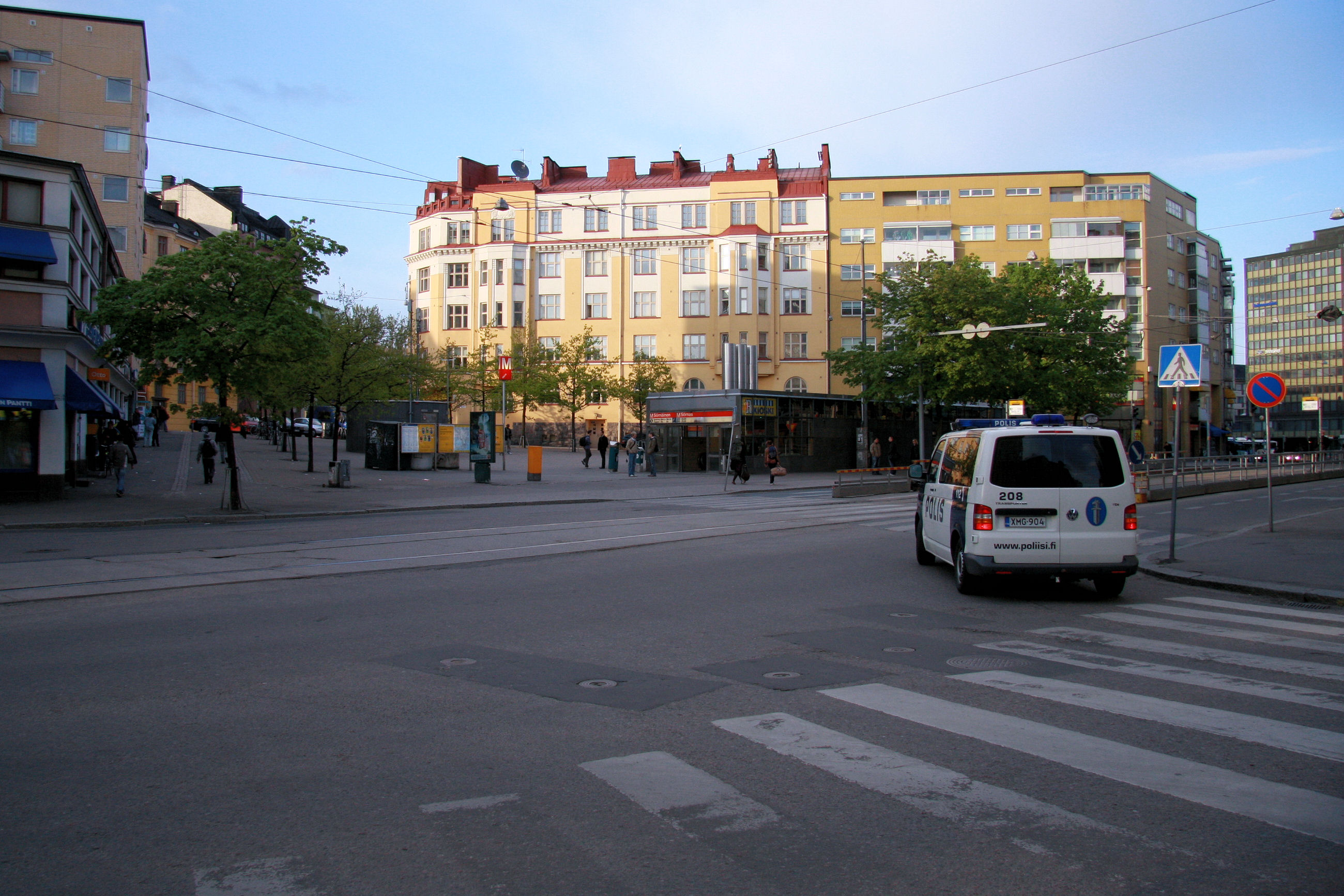 Vaasanaukio and the entrance to the Sörnäinen metro station, Helsinki, Finland.